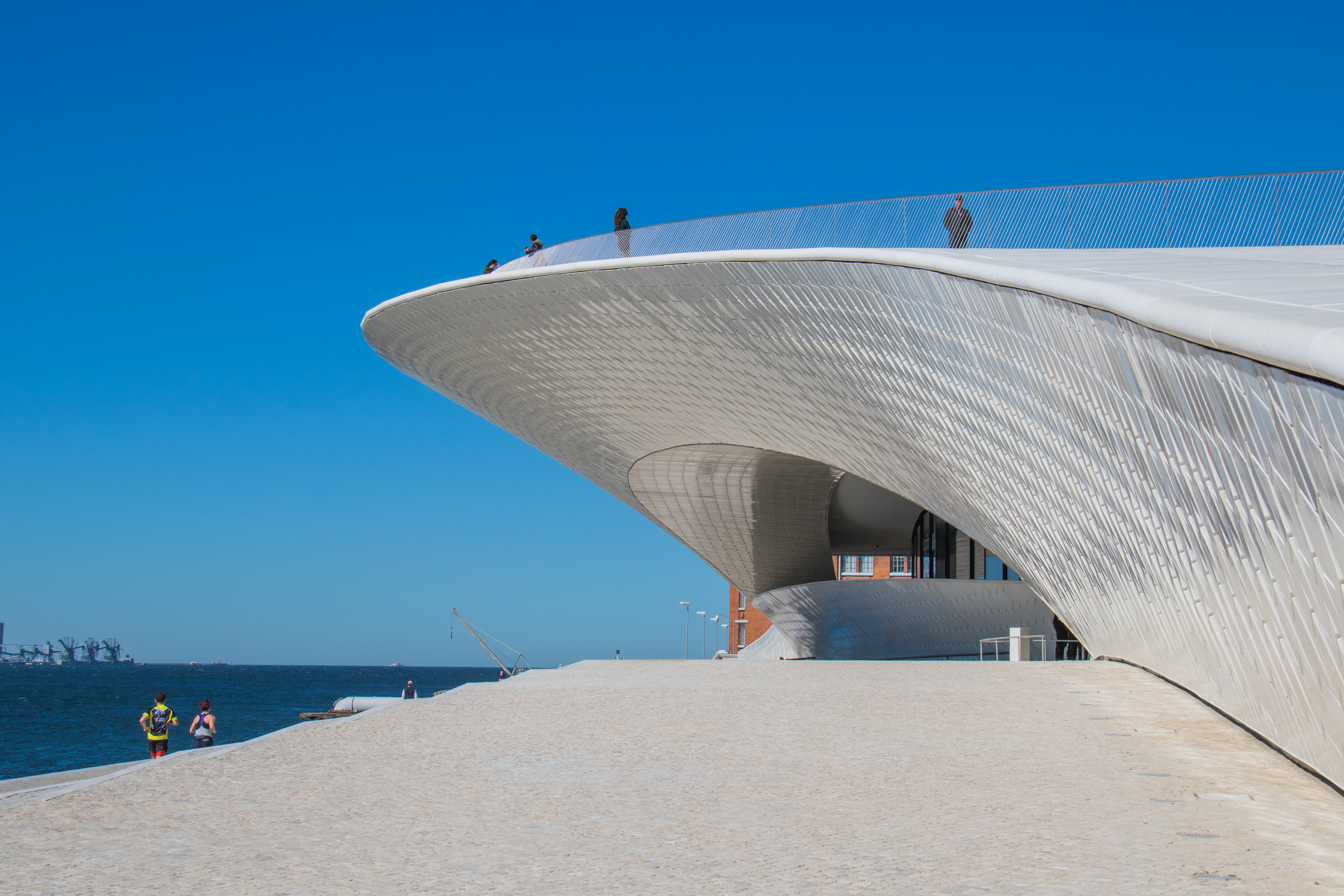 The MAAT